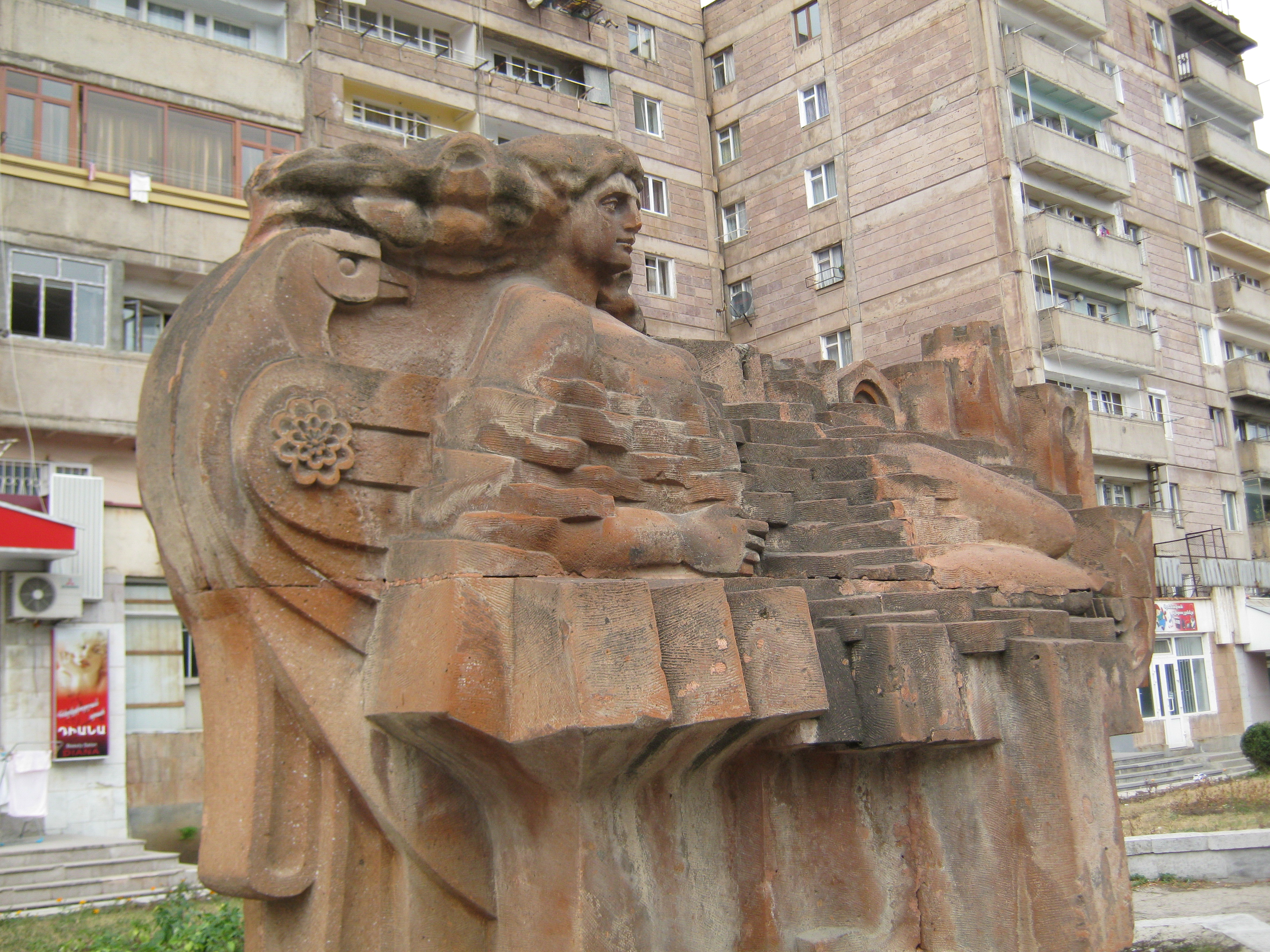 Artsakh square in Vanadzor